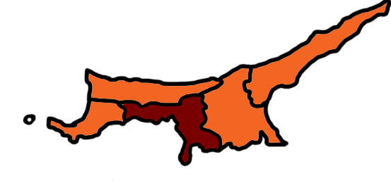 Map showing results of 2010 Presidental Elections in Northern Cyprus. Orange symbolises Eroğlu, while dark red symbolises Talat.